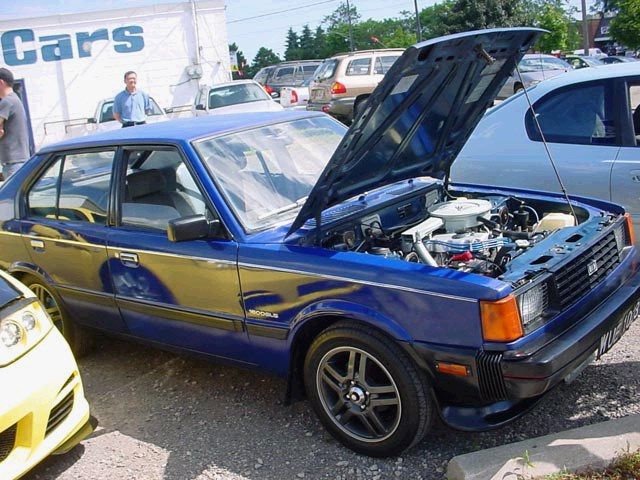 This is a picture of my old restored Hyundai Pony taken around 2004.